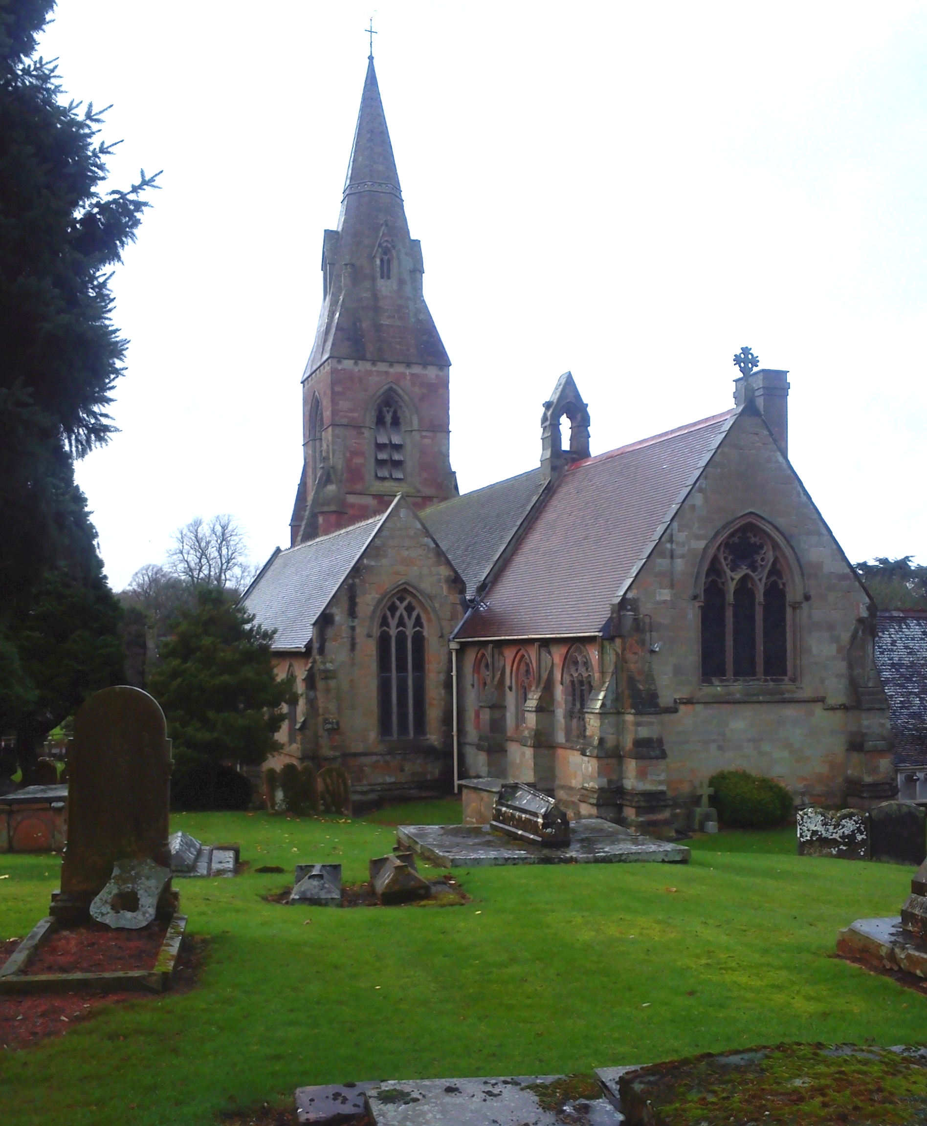 Hagley, Worcestershire, Saint John the Baptist Church